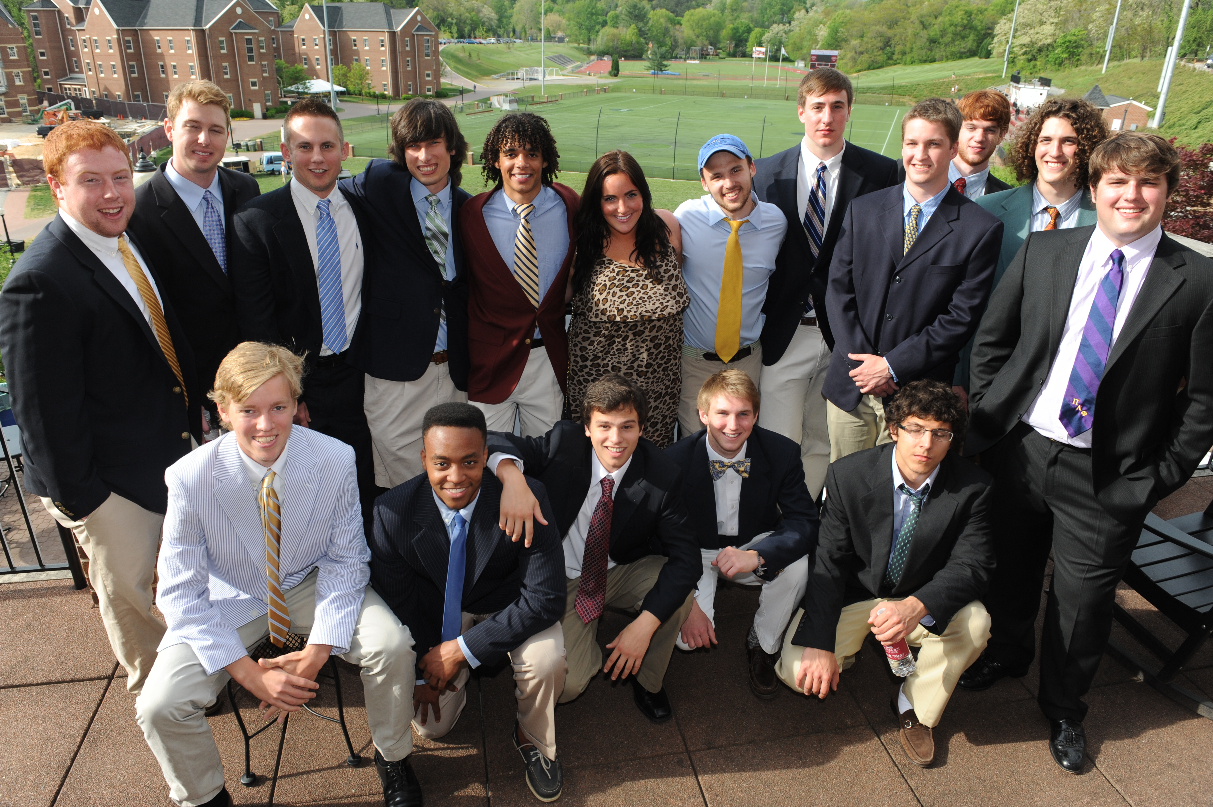 Roanoke College just recolonized a pre-existing chapter, Pi Lambda Phi, and recognized the organization during Alumni Weekend.